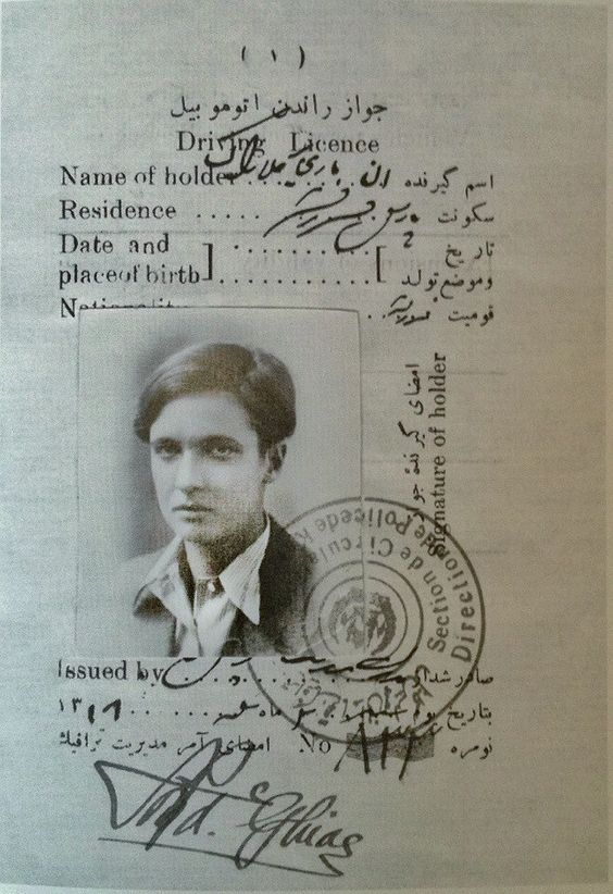 Driving licence of Annemarie Schwarzenbach. Orig. handed out in Persia (end 1933)?, with stamps from Belgian Congo (1941)